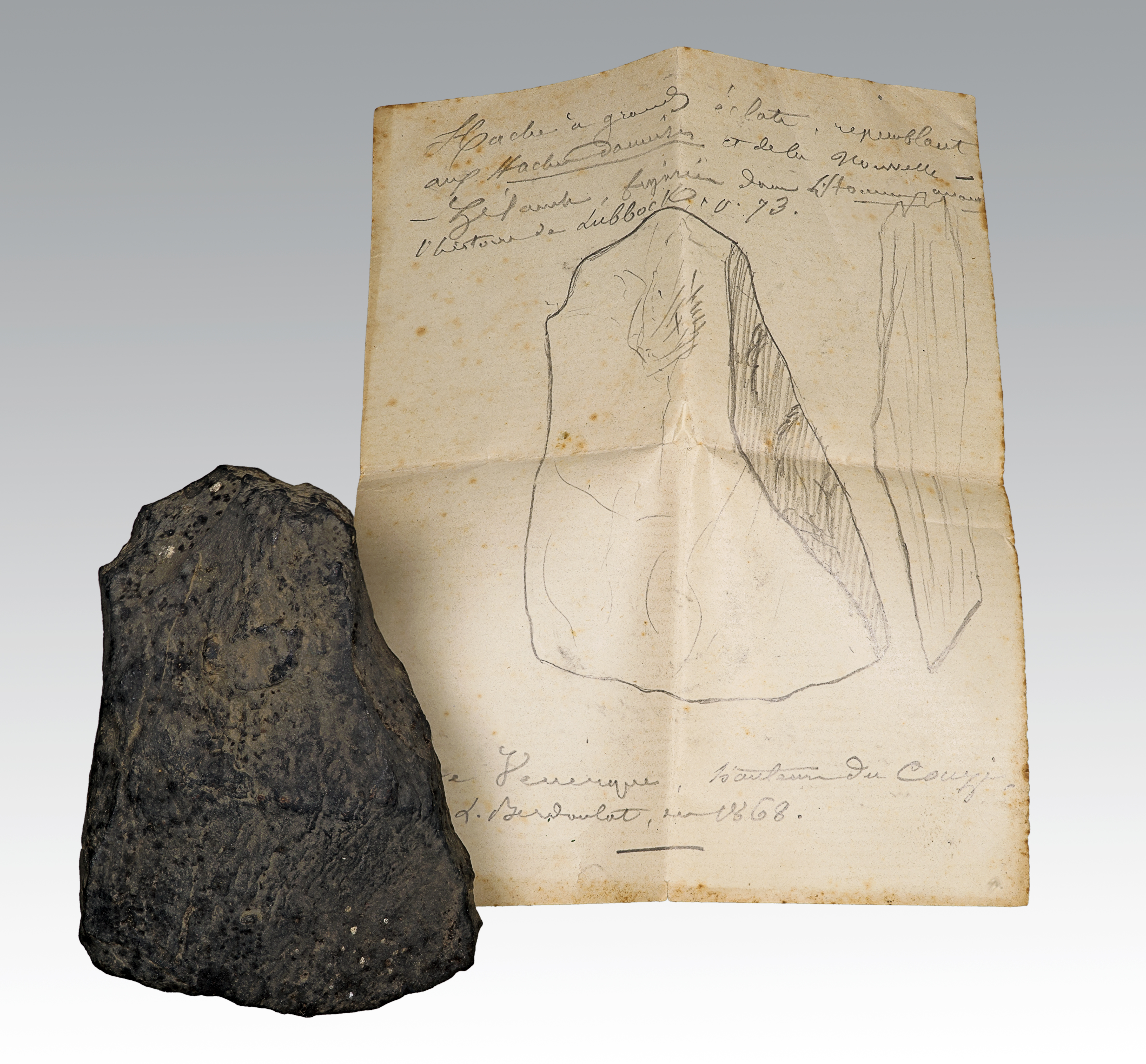 Flint ax Stage : Lower Paleolithic (to - 1 Ma from - 300 000 years Before the Current Era) Locality : Venerque, Haute-Garonne, France Dimensions=8 × 7.5 × 2 cm (3.1 × 2.9 × 0.7 ″); 112 g Former collection of Jean Baptiste Noulet (1802 - 1890) Specimen described and drawn on a note Noulet autograph, dated 1868.